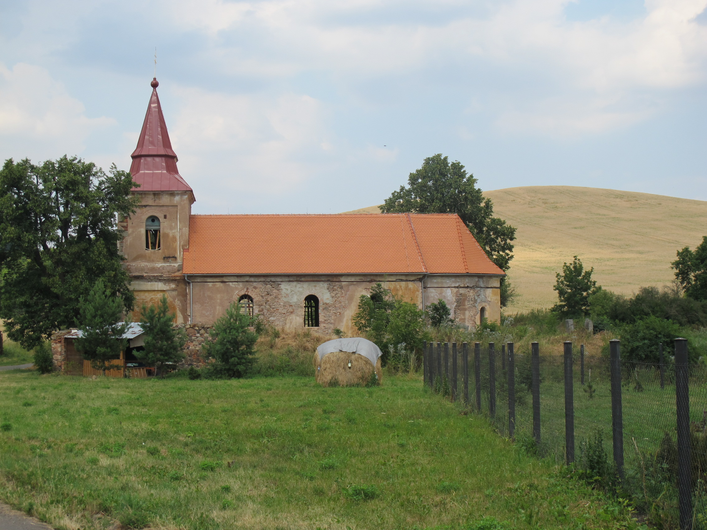 Church of Saint Giles in Libyně